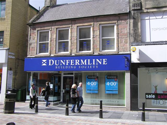 Dunfermline Building Society It is located at High Street